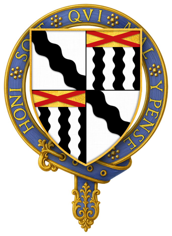 Coat of arms of Sir John Wallop, KG Reference Sir John's stall plate within St. George's Chapel. The plate is currently viewable online at the Royal Collection Trust website.